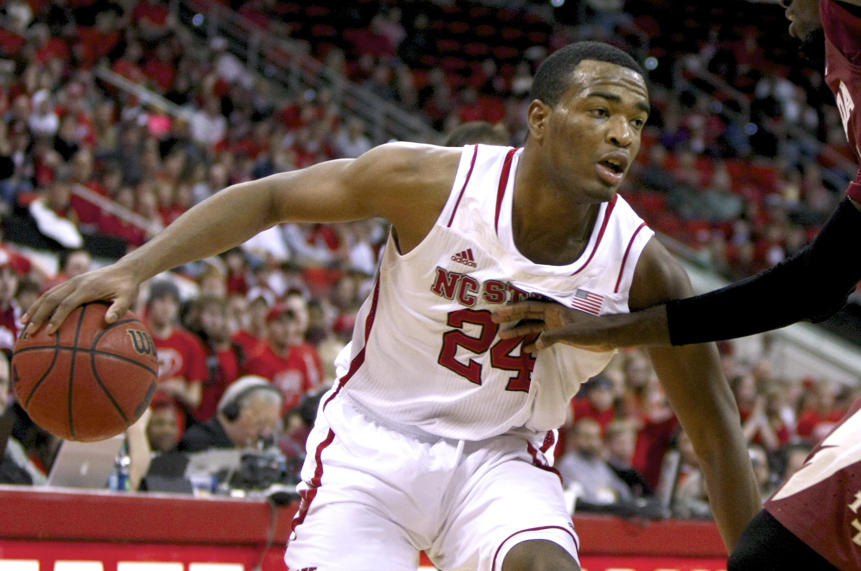 T.J. Warren (24) drives against Okaro White (10). NC State defeated Florida State 74-70 on January 29, 2014 at the PNC Arena in Raleigh, NC. Photo by: Jerome Carpenter